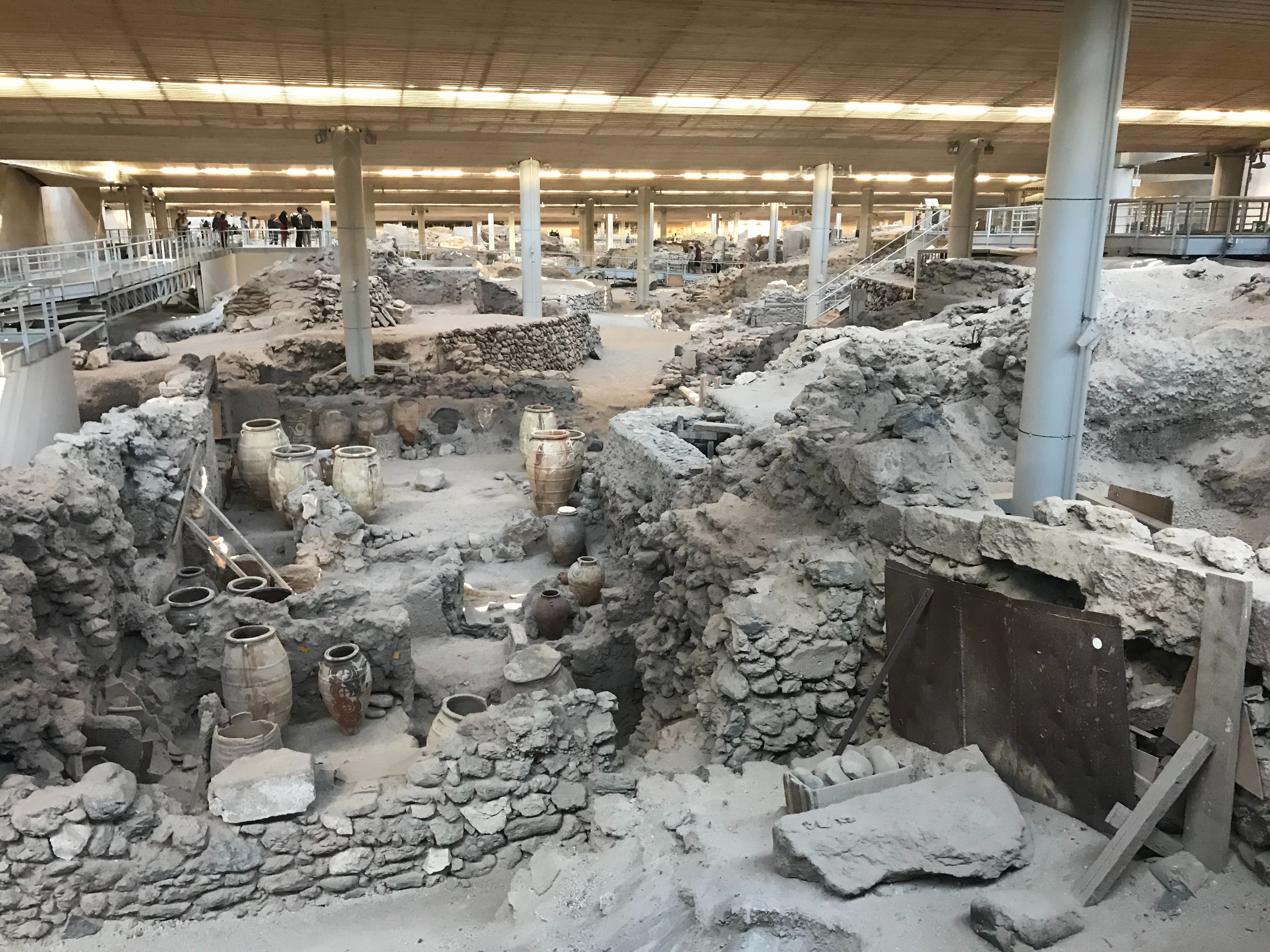 Nisos Thira, Greece, October 2018